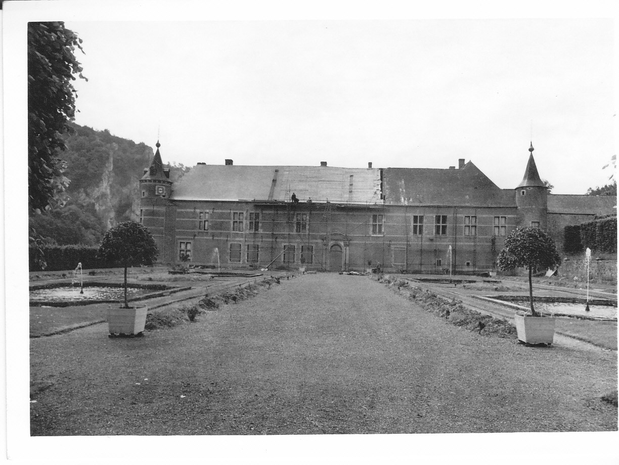 Architect Francis Bonaert restored the garden wing at the Castle of Freÿr